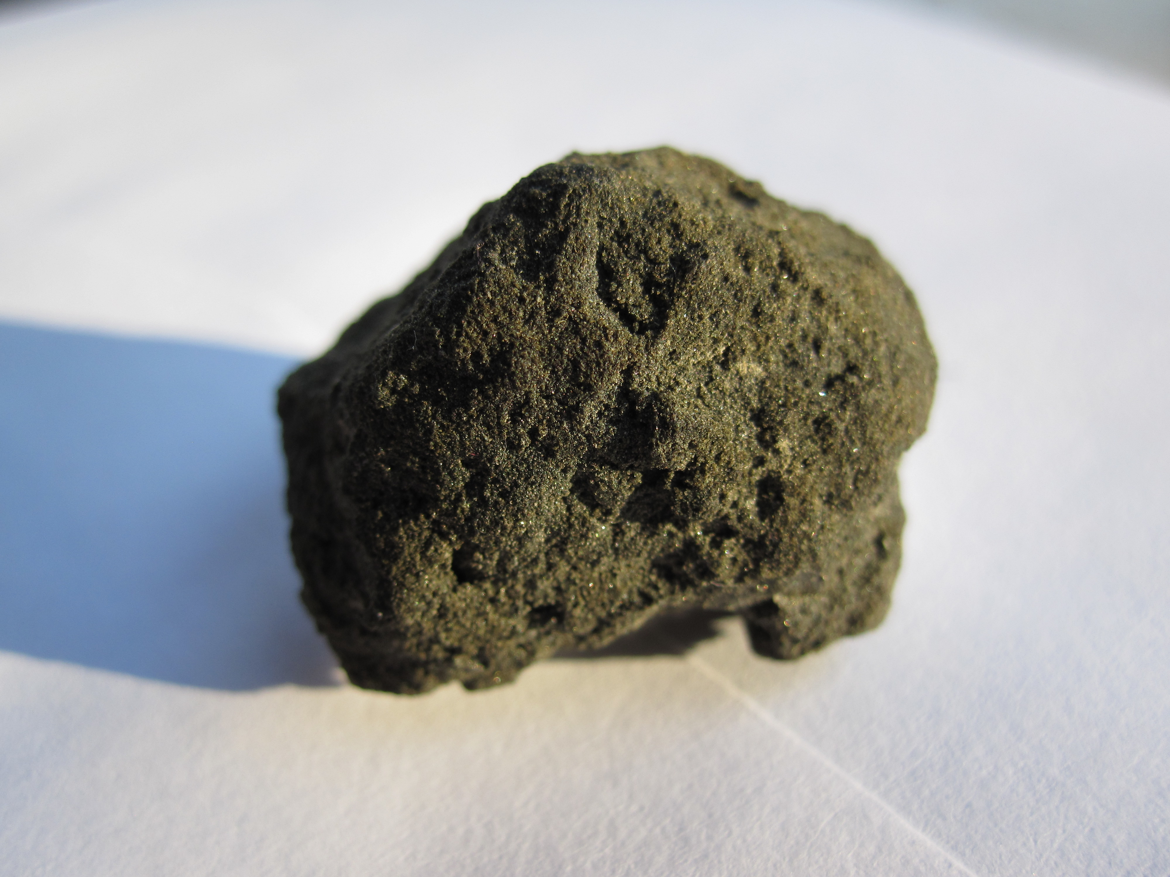 Clinker - one of the basic material of cement.